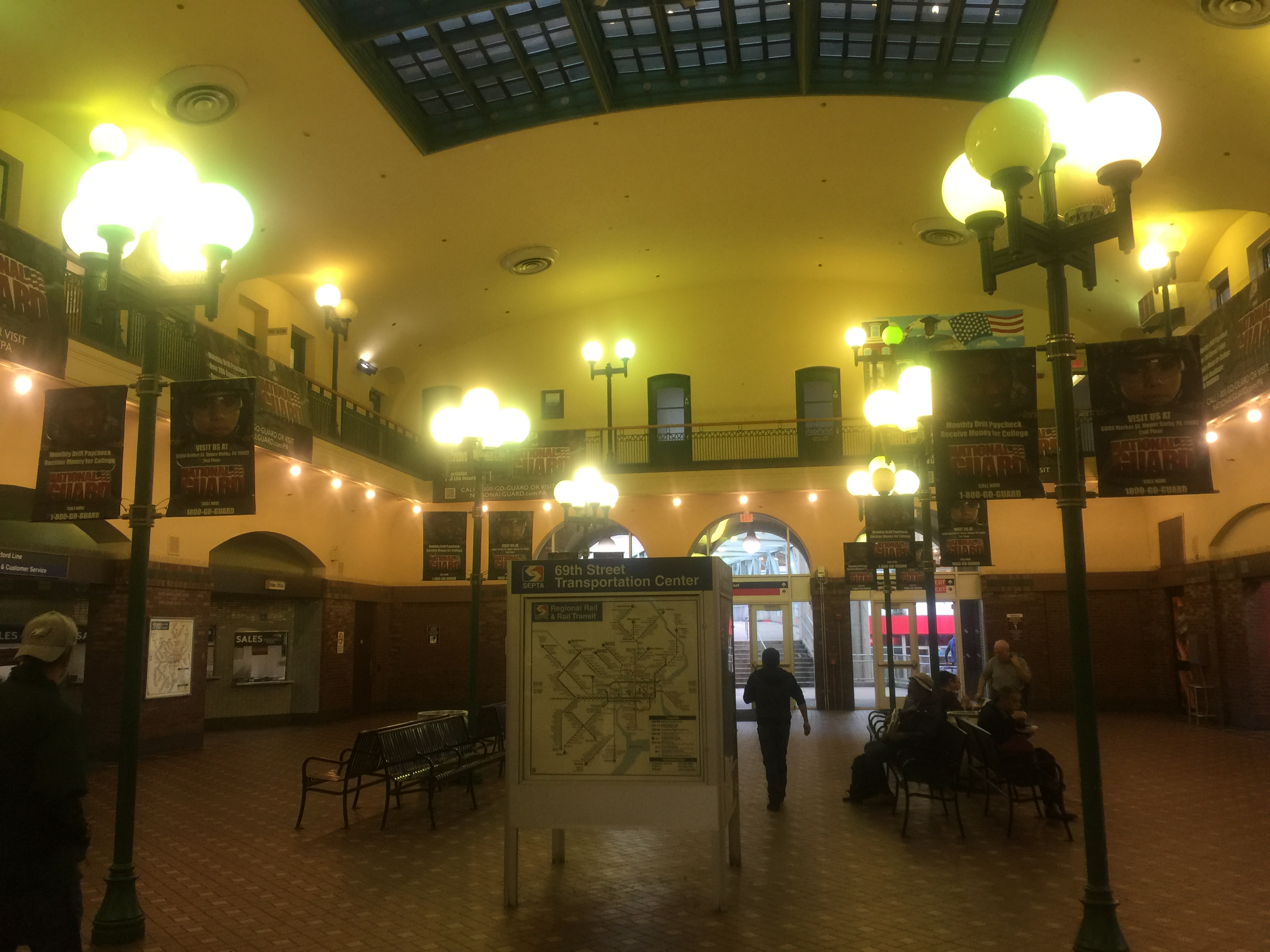 69th Street station interior